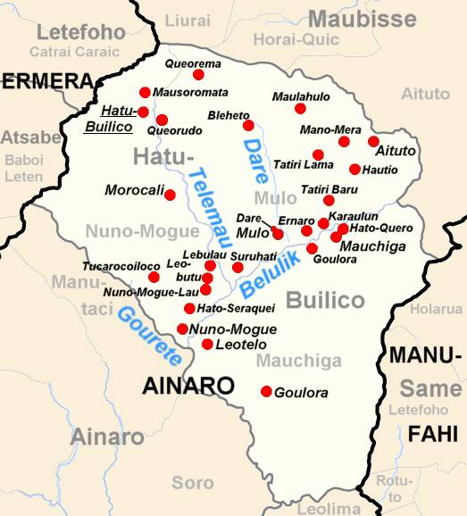 The administrative post of Hatu Builico, municipality Ainaro, East Timor